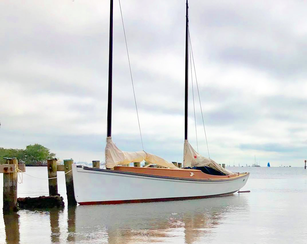 The Barnacle Historic State Park's 2-masted sharpie "Egret"